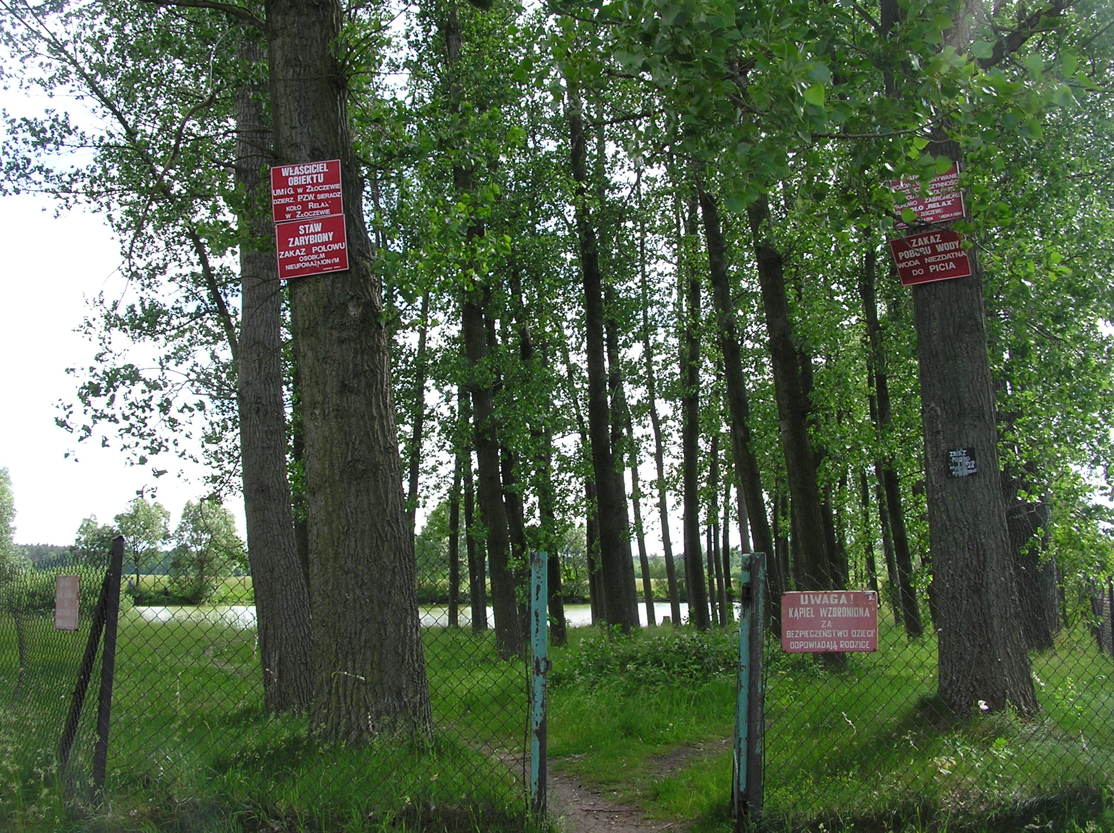 Złoczew (Poland, Łódź Voivodeship, Sieradz County), Starowiejska Street